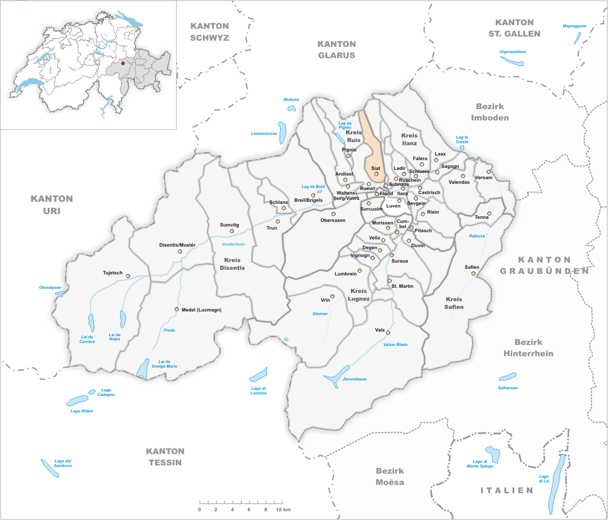 Municipality Siat